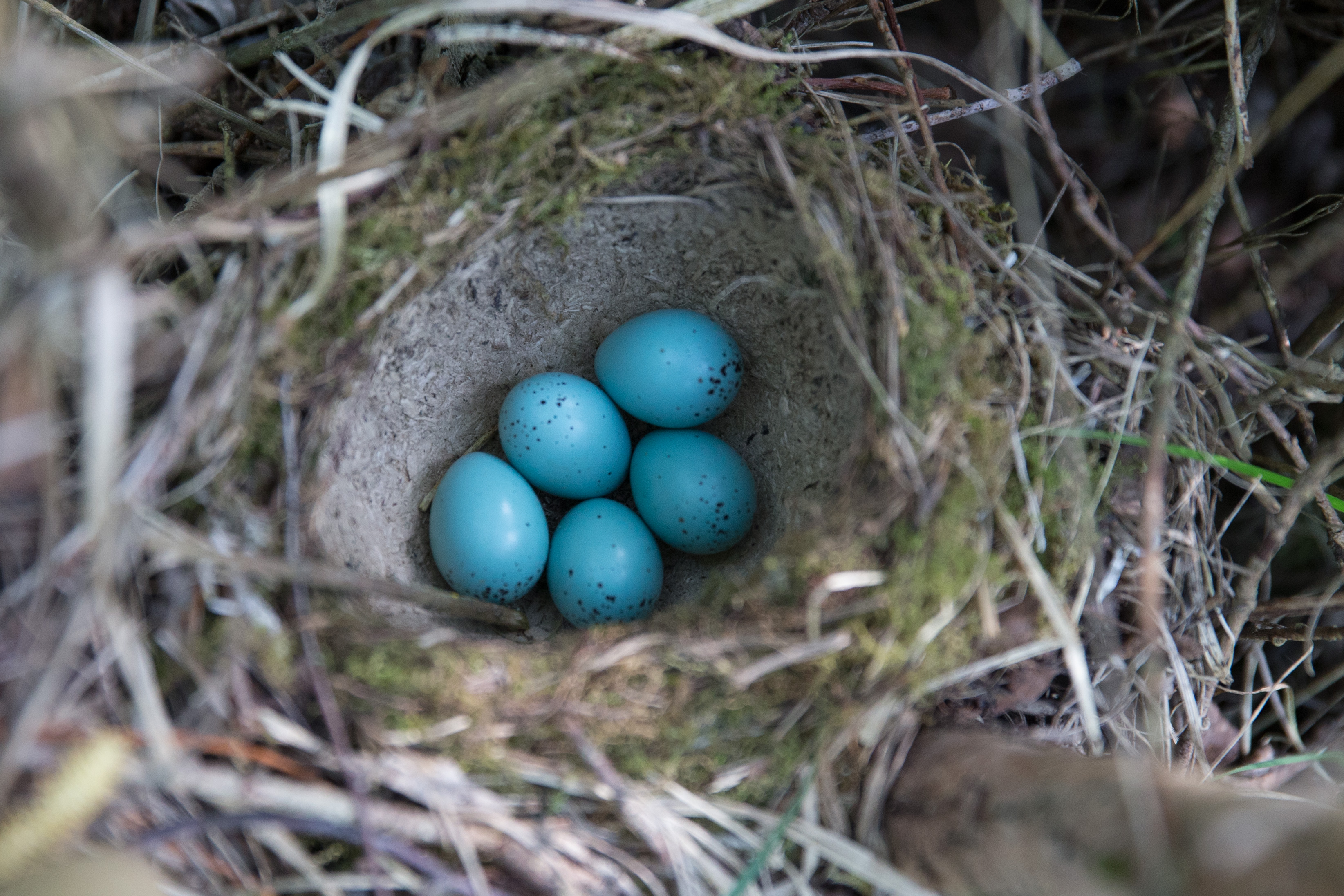 Song Thrush